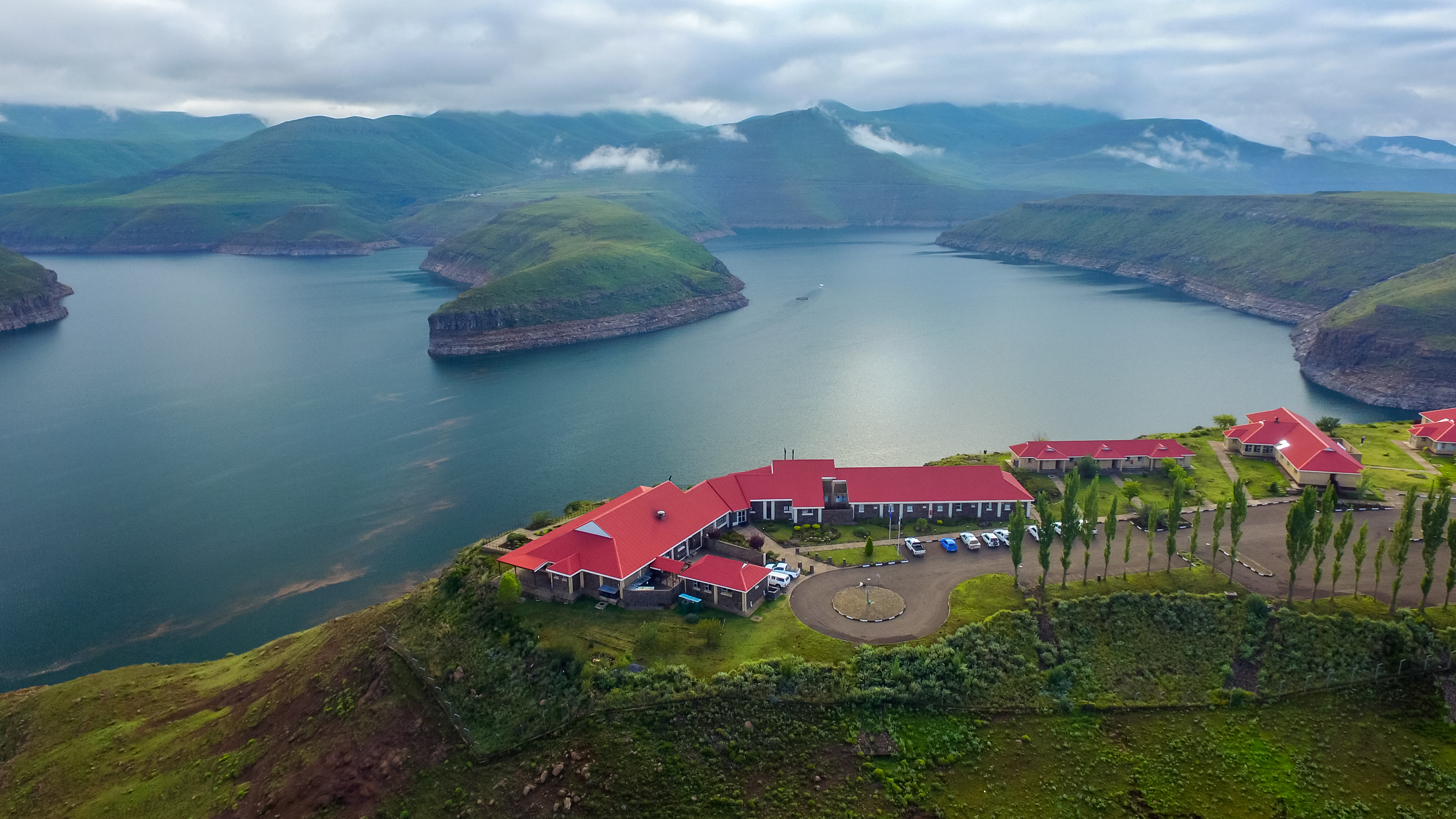 Malibamat'so River in Lesotho